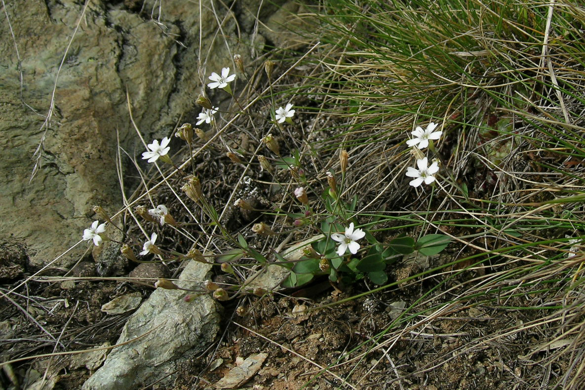 Silene rupestris, Zermatt, Riffelberg (Kanton Wallis, Switzerland), 2500 m